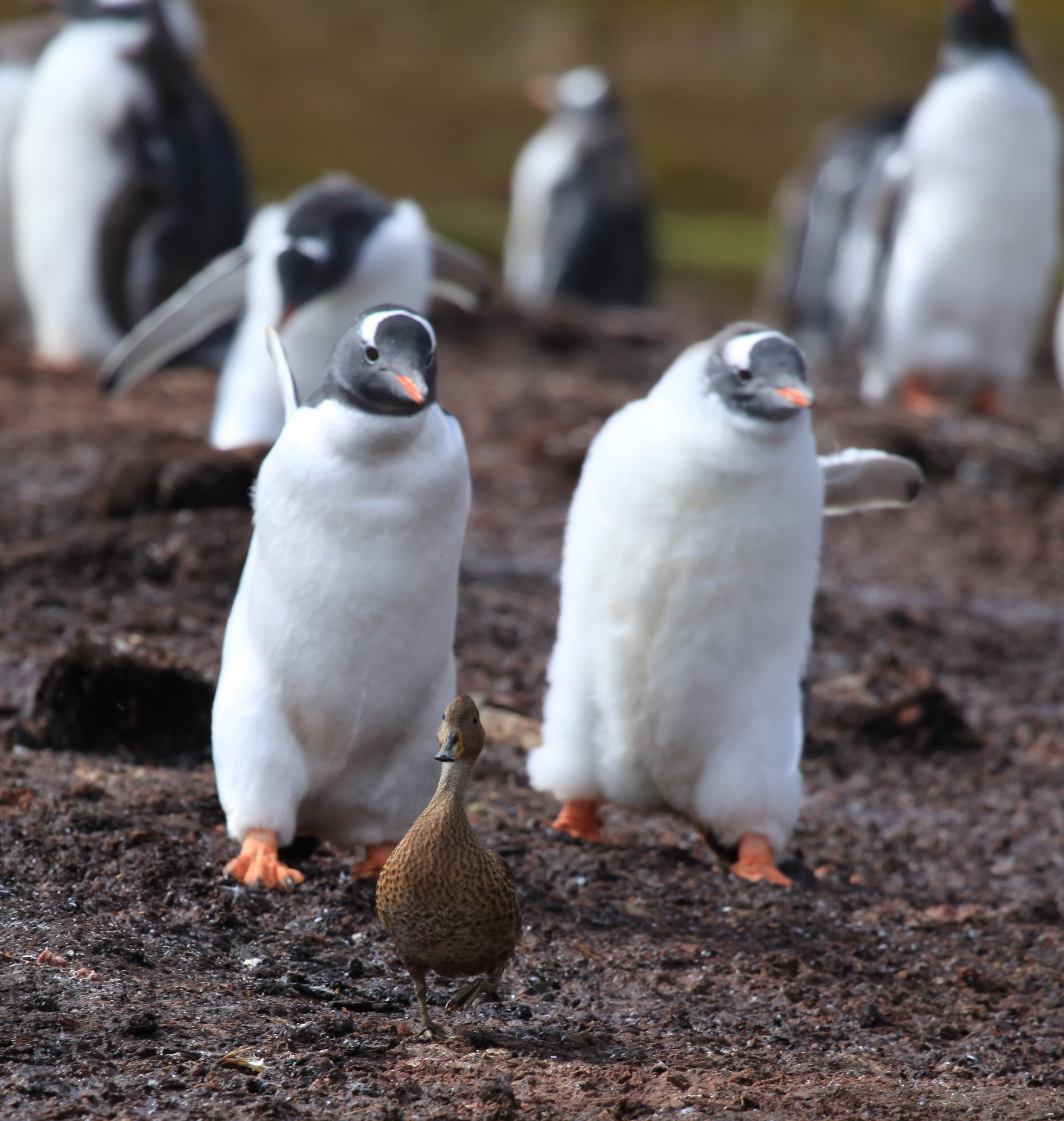 At Godthul, South Georgia.